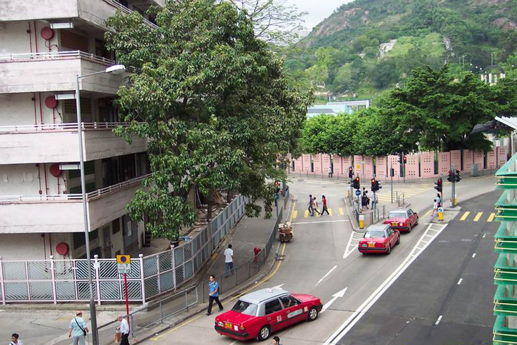 Looking downwards from On Kay Court, the old junction layout plan of Chun Wah Road and Choi Ha Road is seen.